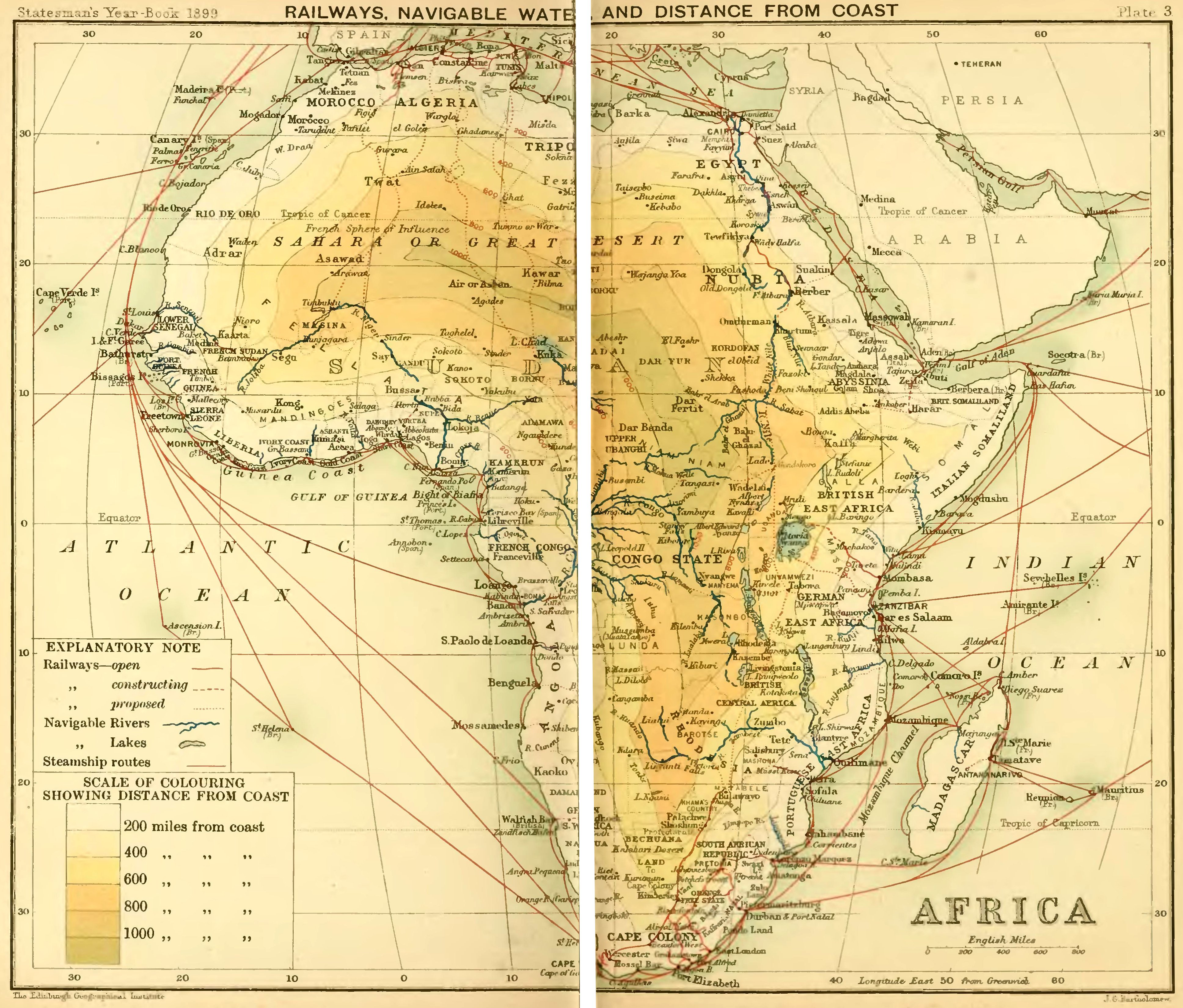 Map of Africa showing railways, navigatable waters, and distance from the coast. From The Statesman's Year-Book 1899.